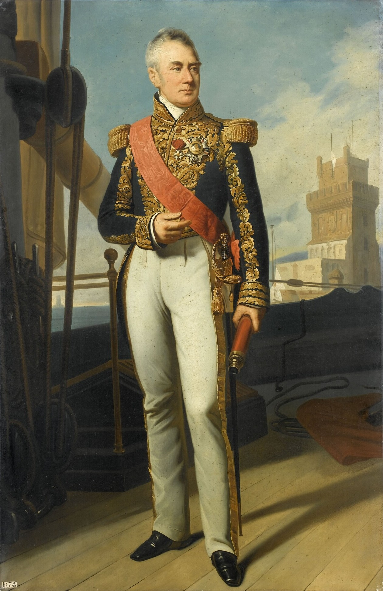 Albin Roussin, French admiral and statesman